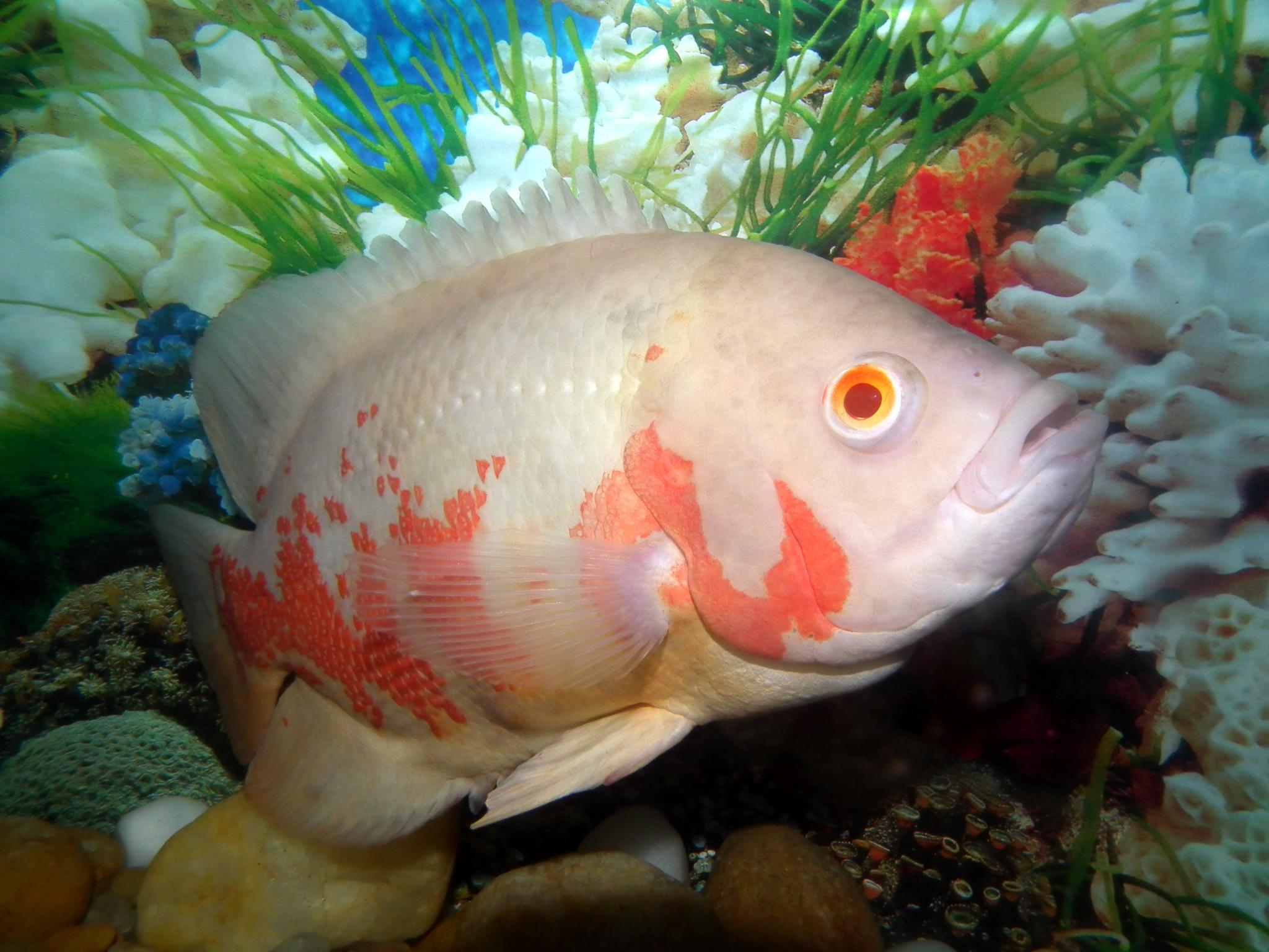 Astronotus ocellatus is a species of fish from the cichlid family known under a variety of common names including oscar, tiger oscar, velvet cichlid, or marble cichlid. In South America, where the species naturally resides, A. ocellatus are often found for sale as a food fish in the local markets. The fish can also be found in other areas including China, Australia, and the United States. Although its slow growth limits its potential for aquaculture, it is considered a popular aquarium fish.